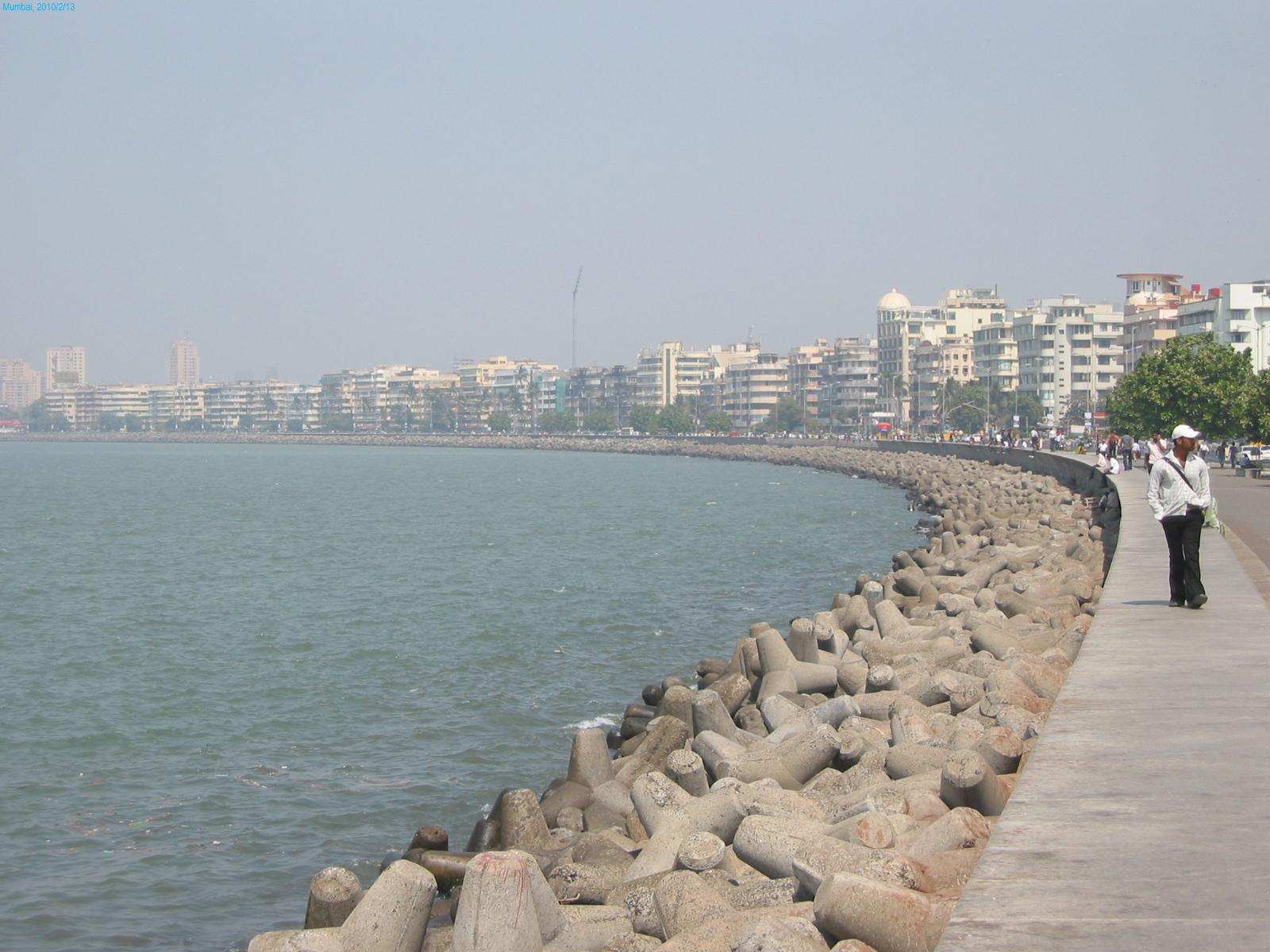 Concrete "caltrops" defend the seafront from erosion at Mumbai.